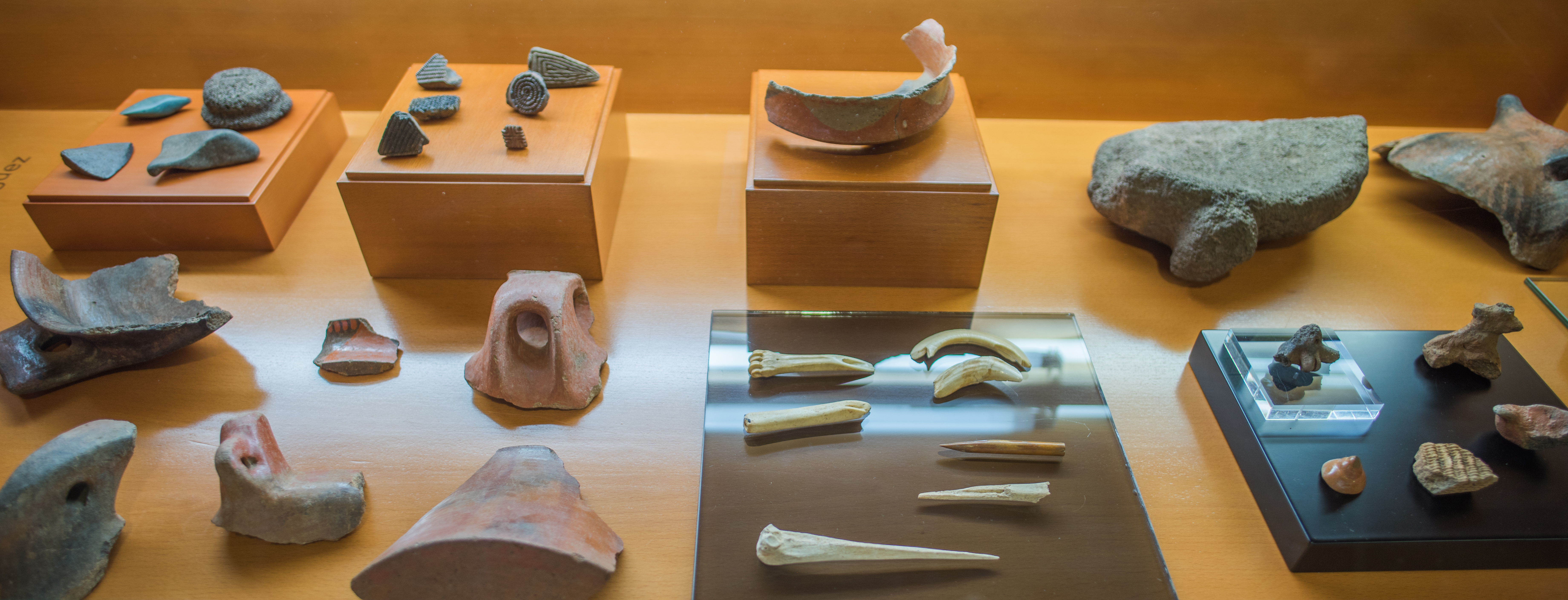 Sardina Gran Canaria January 2016